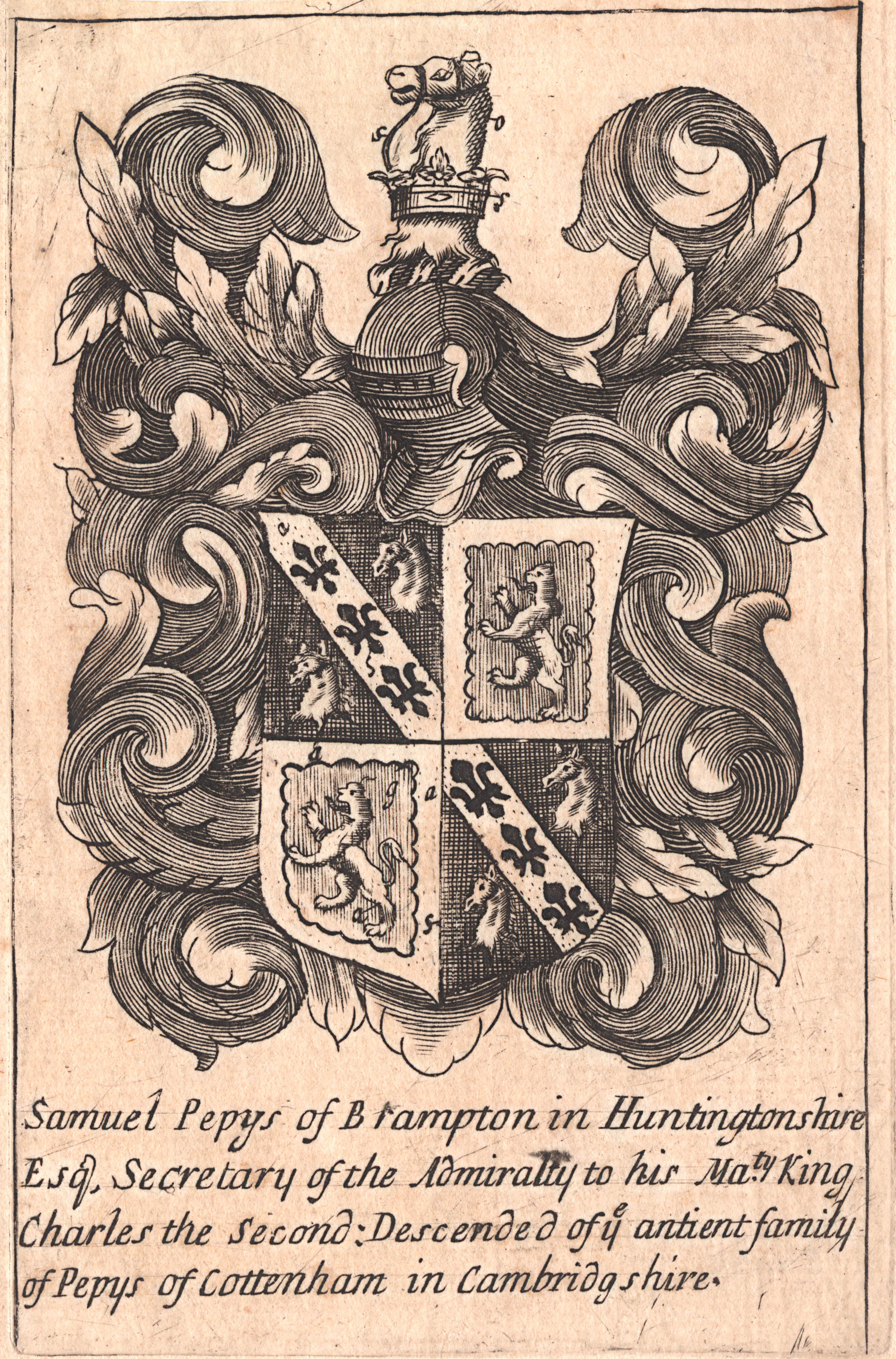 Bookplate c.1680-1690 with arms of Samuel Pepys: Quarterly 1st & 4th: Sable, on a bend or between two nag's heads erased argent three fleurs-de-lis of the field (Pepys[1]); 2nd & 3rd: Gules, a lion rampant within a bordure engrailed or (Talbot[2]). Samuel Pepys the diarist was the son of John Pepys of Cottenham in Cambridgeshire, and descended from the John Pepys who married Elizabeth Talbot, the heiress of Cottenham.[1] Inscription: "Samuel Pepys of Brampton in Huntingtonshire Esq., Secretary of the Admiralty to His Ma.ty King Charles the Second. Descended of ye antient family of Pepys of Cottenham in Cambrideshire". Engraved by by the engraver of Blome's Guillim (British Bookplates, p.28). Ref Franks [F23258]. From the collection of James W. Wilson, sold 17 May 2005 by Bonhams New Bond Street, London, auction no 11940 Photography, Printed Books and Maps, lot 107 [2]